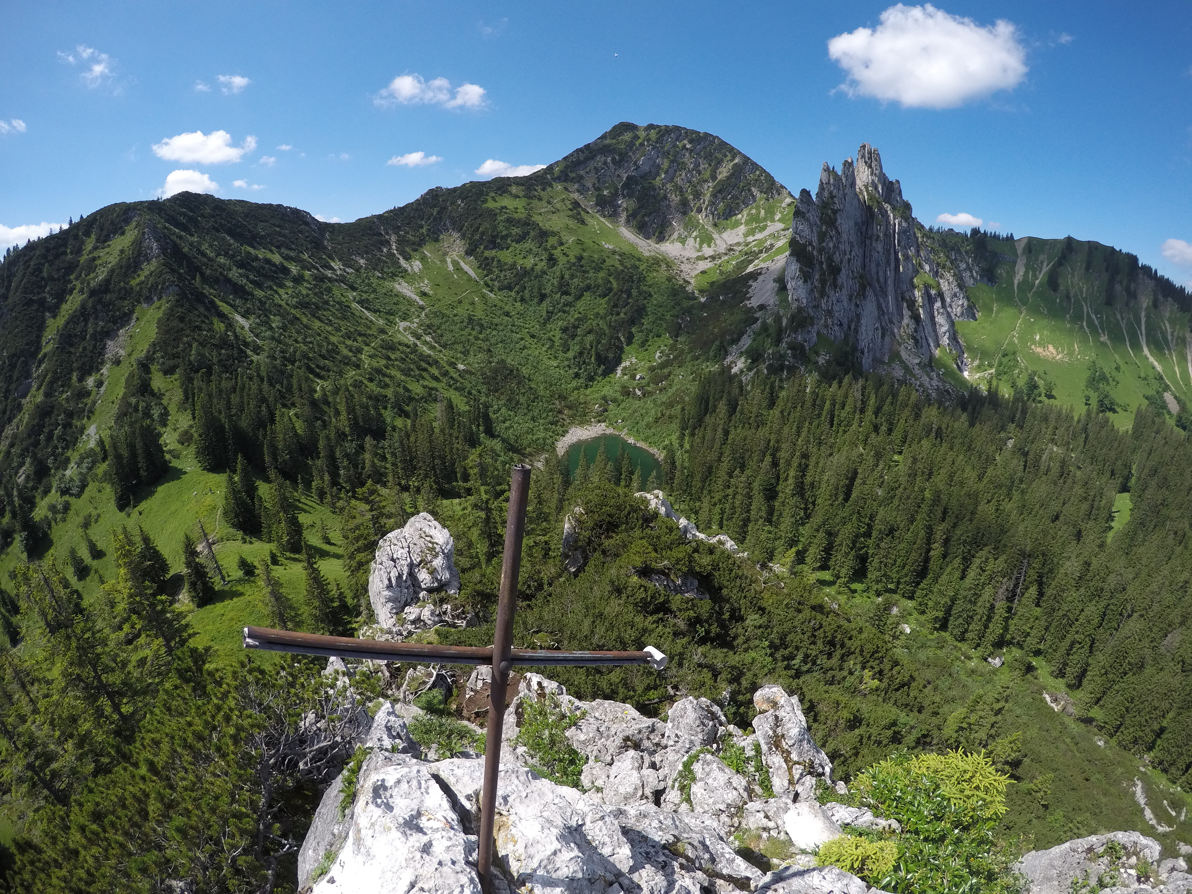 Schreistein,Bavariar, summit cross